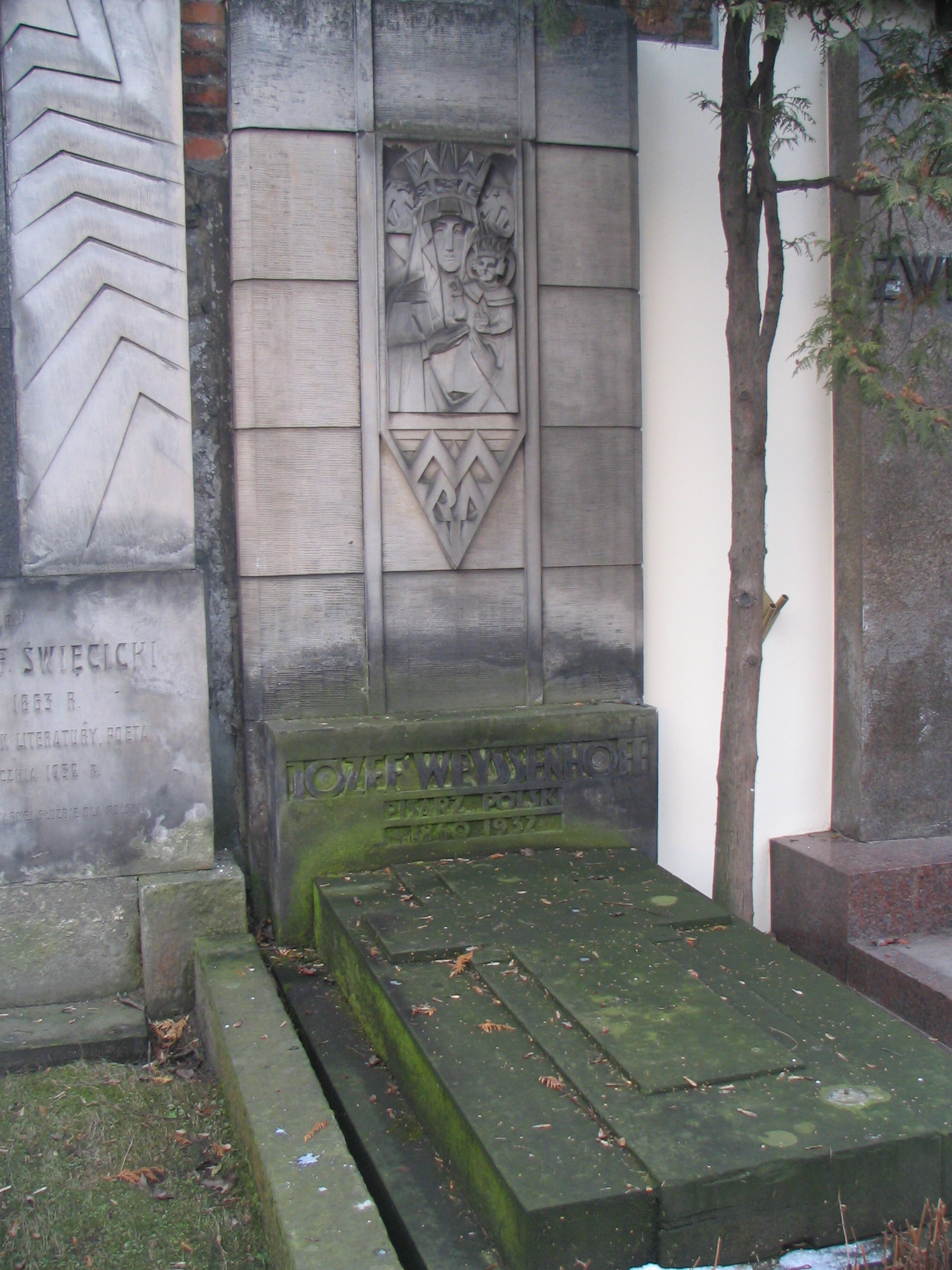 Grave of Józef Weyssenhoff